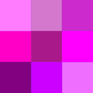 color icon magenta